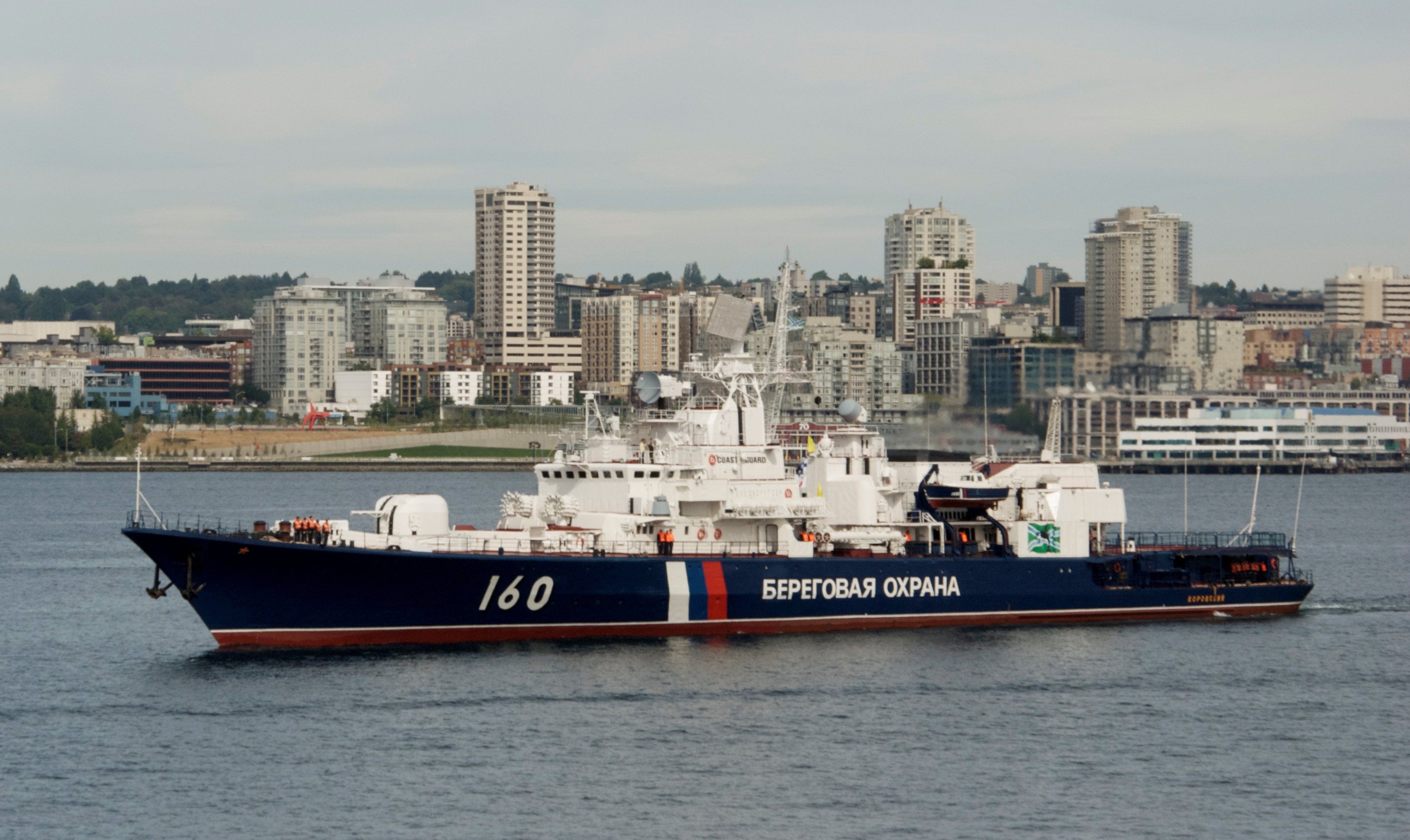 SEATTLE - The Russian Border Guard vessel Vorovskiy, arrives here in Seattle, for the conclusion of Pacific Unity 2009, Aug. 26, 2009. The Vorovskiy's visit marks the first by a Russian Border Guard vessel to the lower 48 states. The Vorovskiy is participating in Pacific Unity 2009, a coordinated North Pacific Coast Guard Forum scenario focused on demonstrating the partner nations' ability to provide maritime assets during an exercise occurring in the Pacific Northwest.